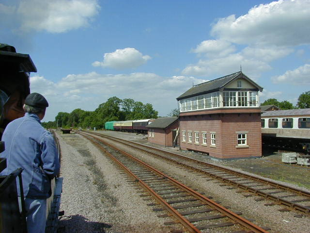 Sidings. Sidings just before Swithland reservoir on the great central railway.